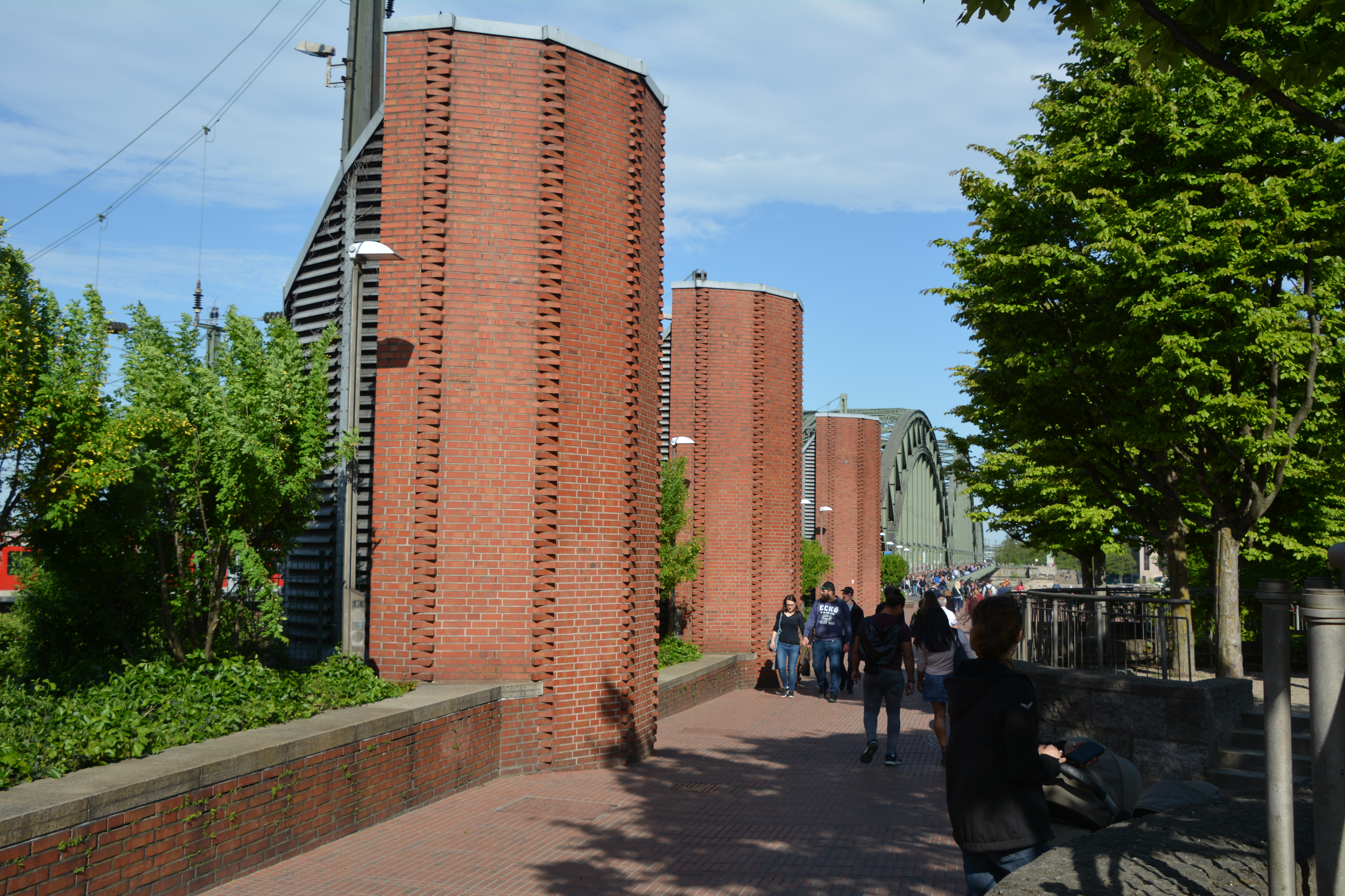 Heinrich-Böll-Platz, Köln. Northeast corner towards Hohenzollernbrücke.